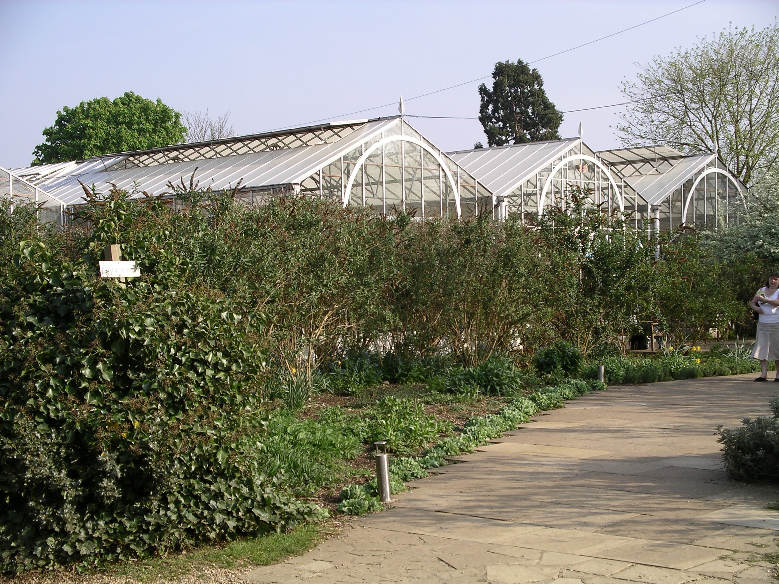 Photo of the green houses of Stratford Butterfly Farm, Stratford-upon-Avon, Warwickshire, England.